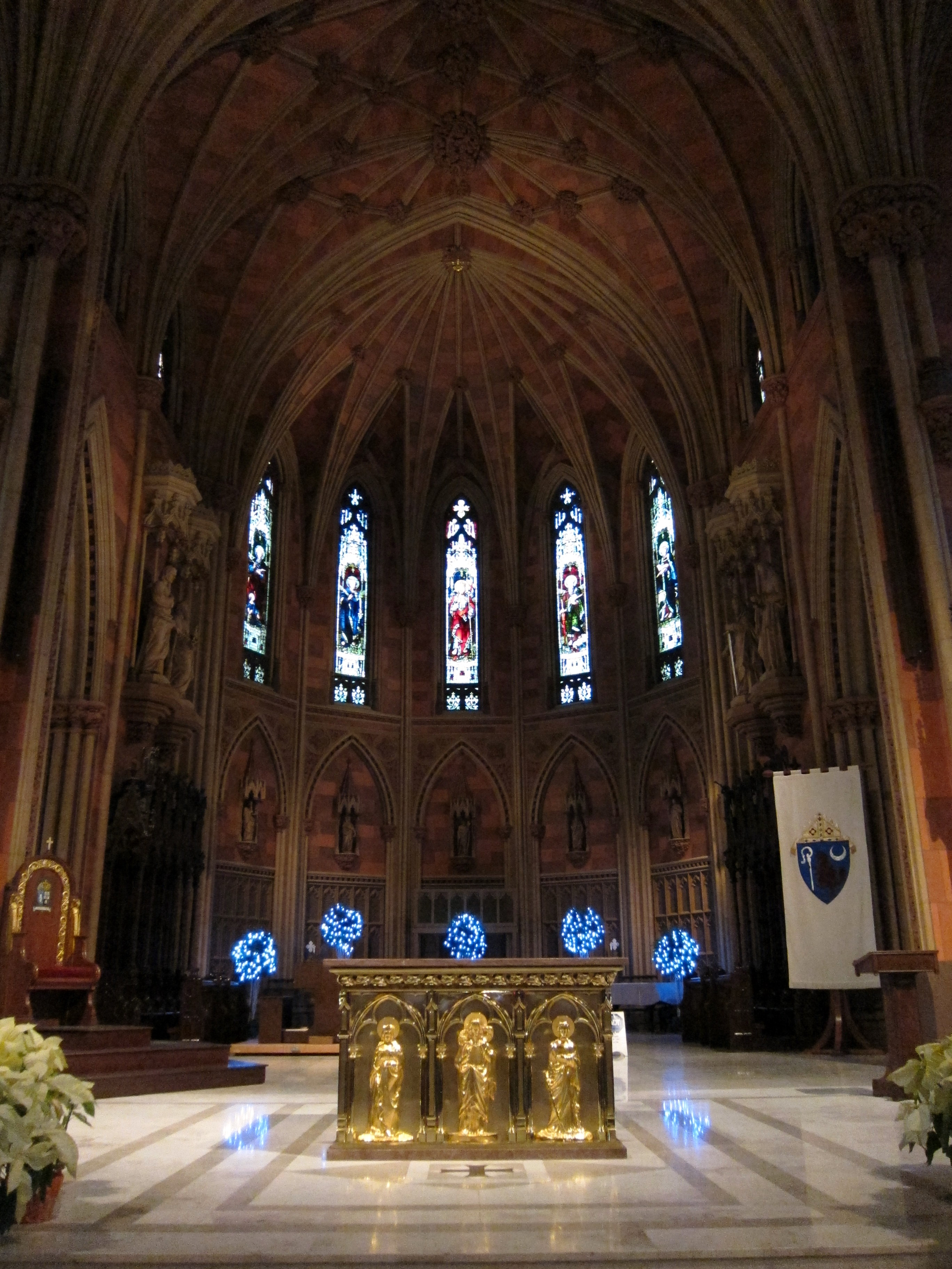 Cathedral of the Immaculate Conception (Albany, New York) - interior, sanctuary decorated for Christmas